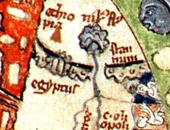 Psalter world map, Egyptus, Ethiopia